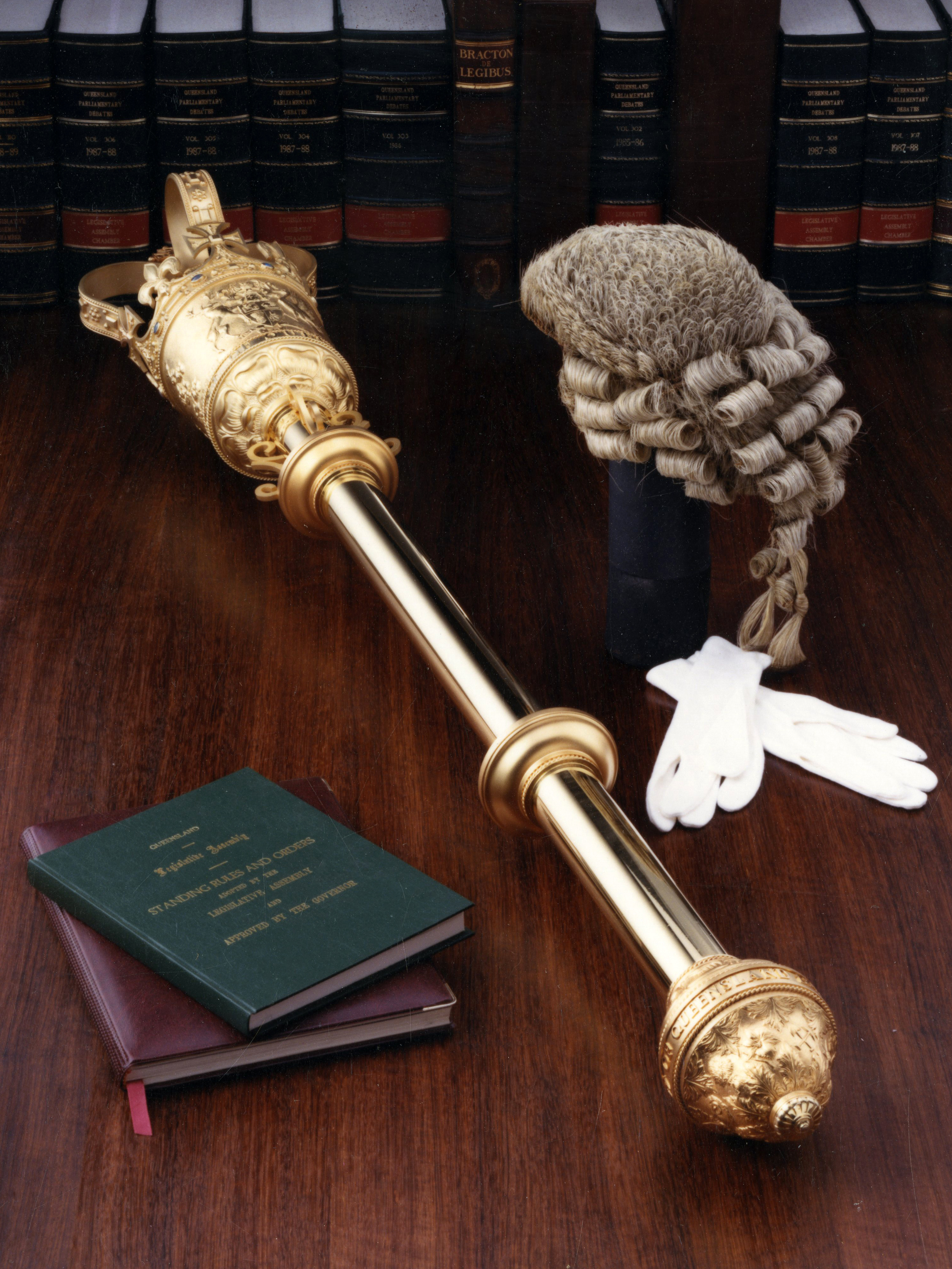 Ceremonial Mace of the Queensland Parliament, made in 1978